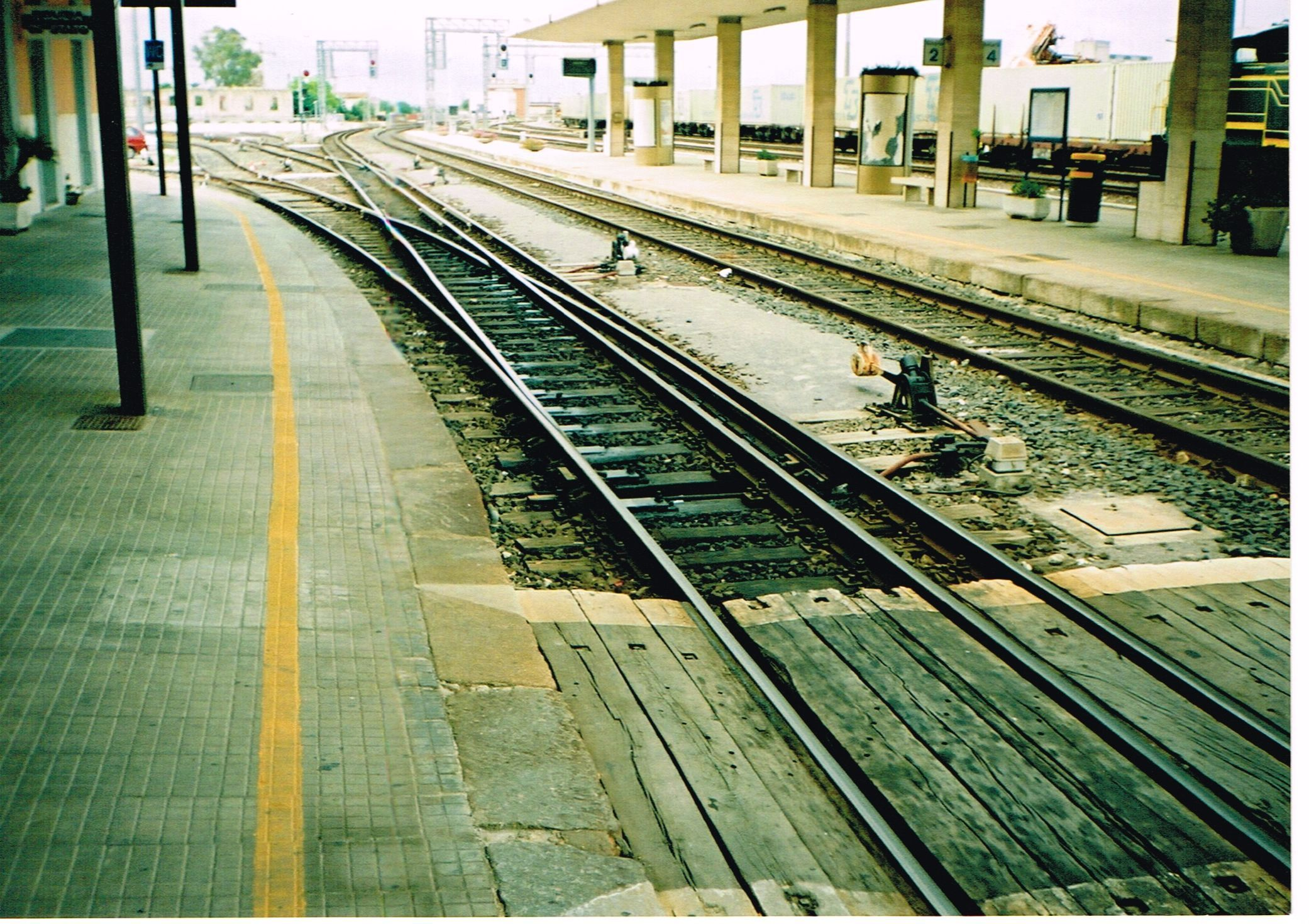 Mixed gauge track in Sassari station, Sardinia, 1996